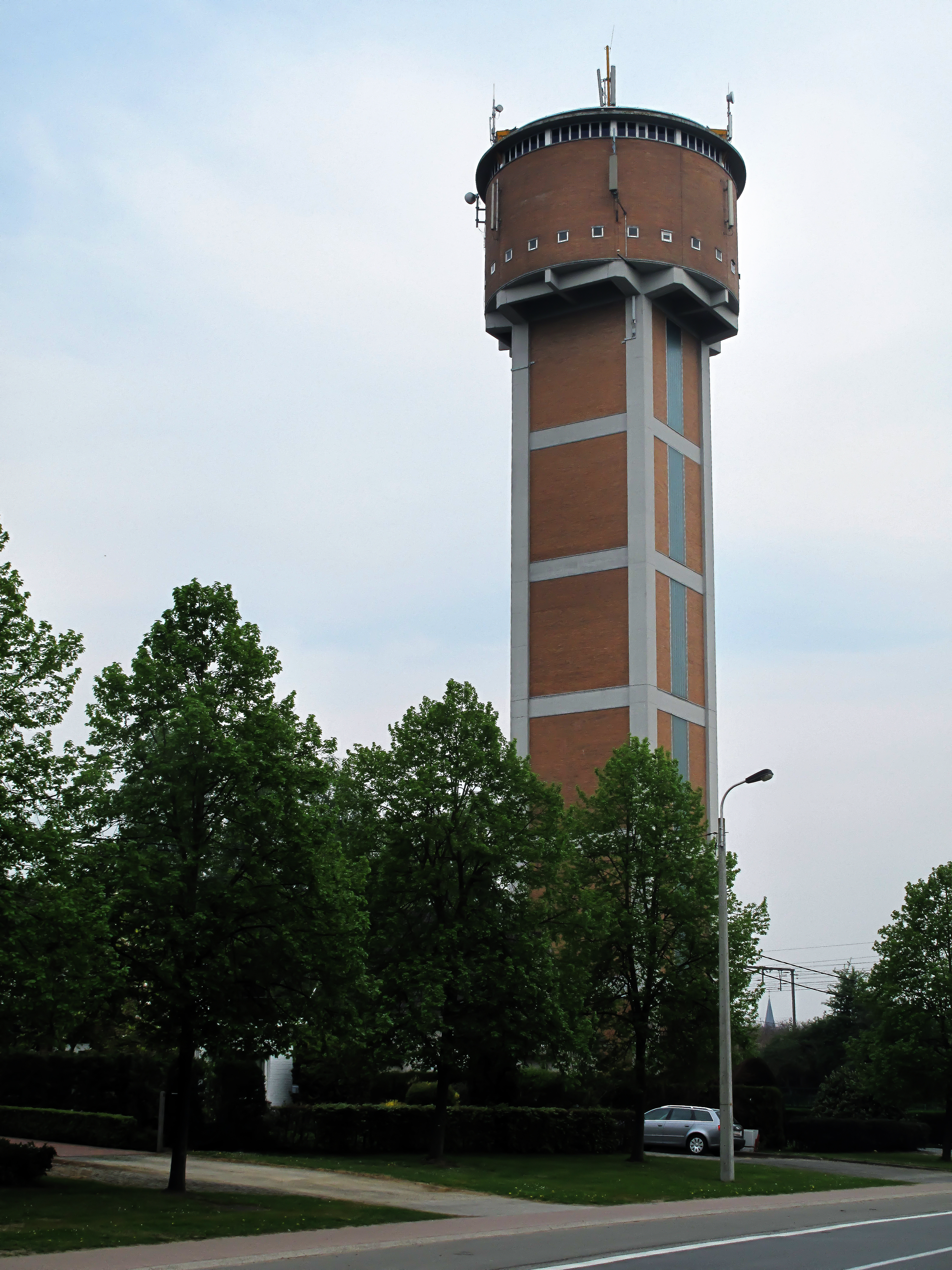 Melle, watertower